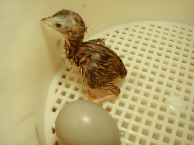 A newly hatched Common Pheasant. I took this photo myself.